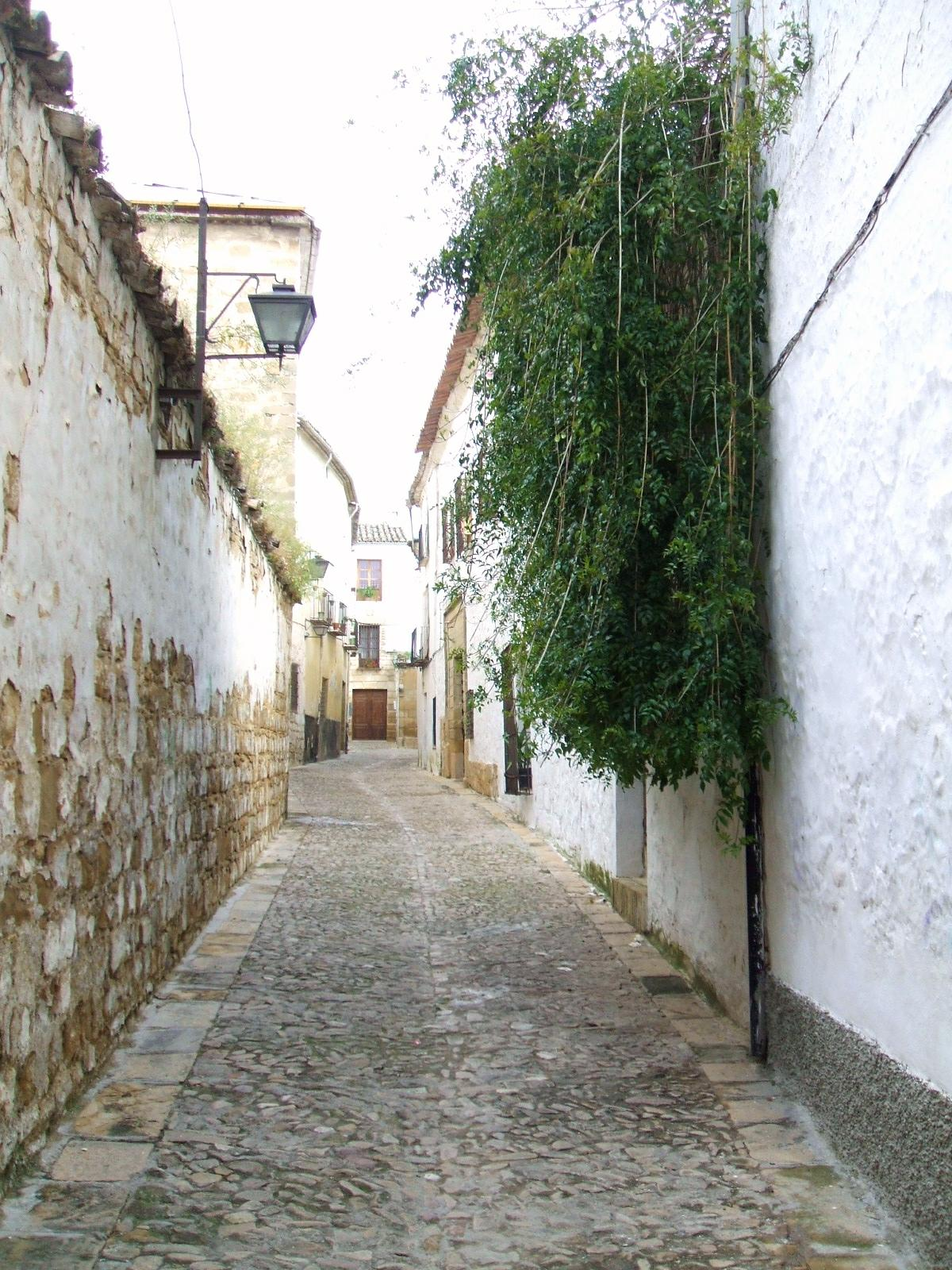 Callejuela en Úbeda (Jaén, Andalucía, España)